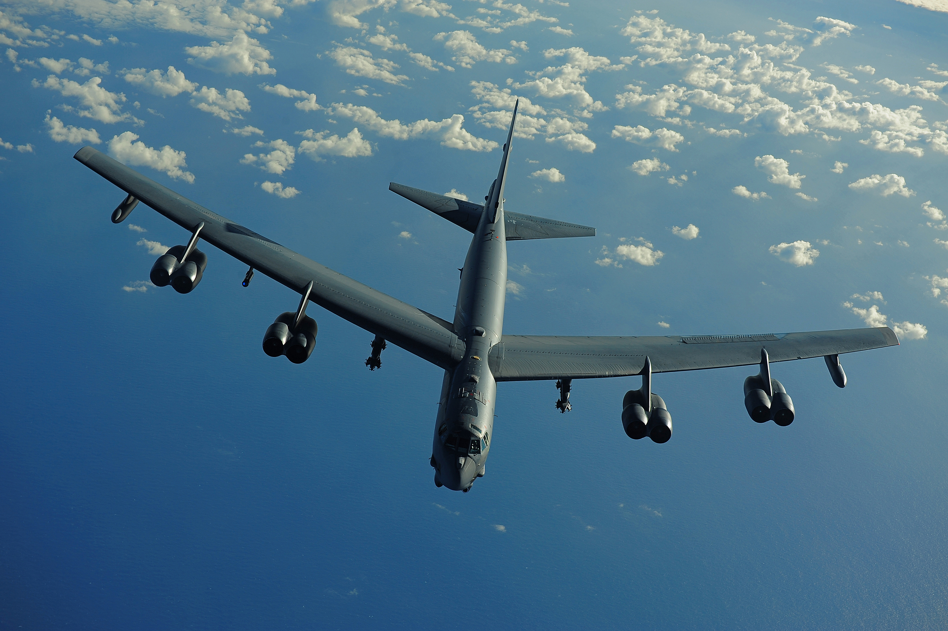 A U.S. Air Force B-52 Stratofortress from the 20th Expeditionary Bomb Squadron, Barksdale Air Force Base, La., flies a mission in support of Rim of the Pacific (RIMPAC) 2010 over the Pacific Ocean July 10, 2010.